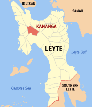 Map of Leyte showing the location of Kananga